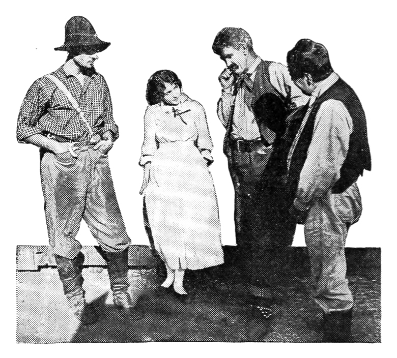 Bessie Love and other cast members in The Dawn of Understanding (1918)